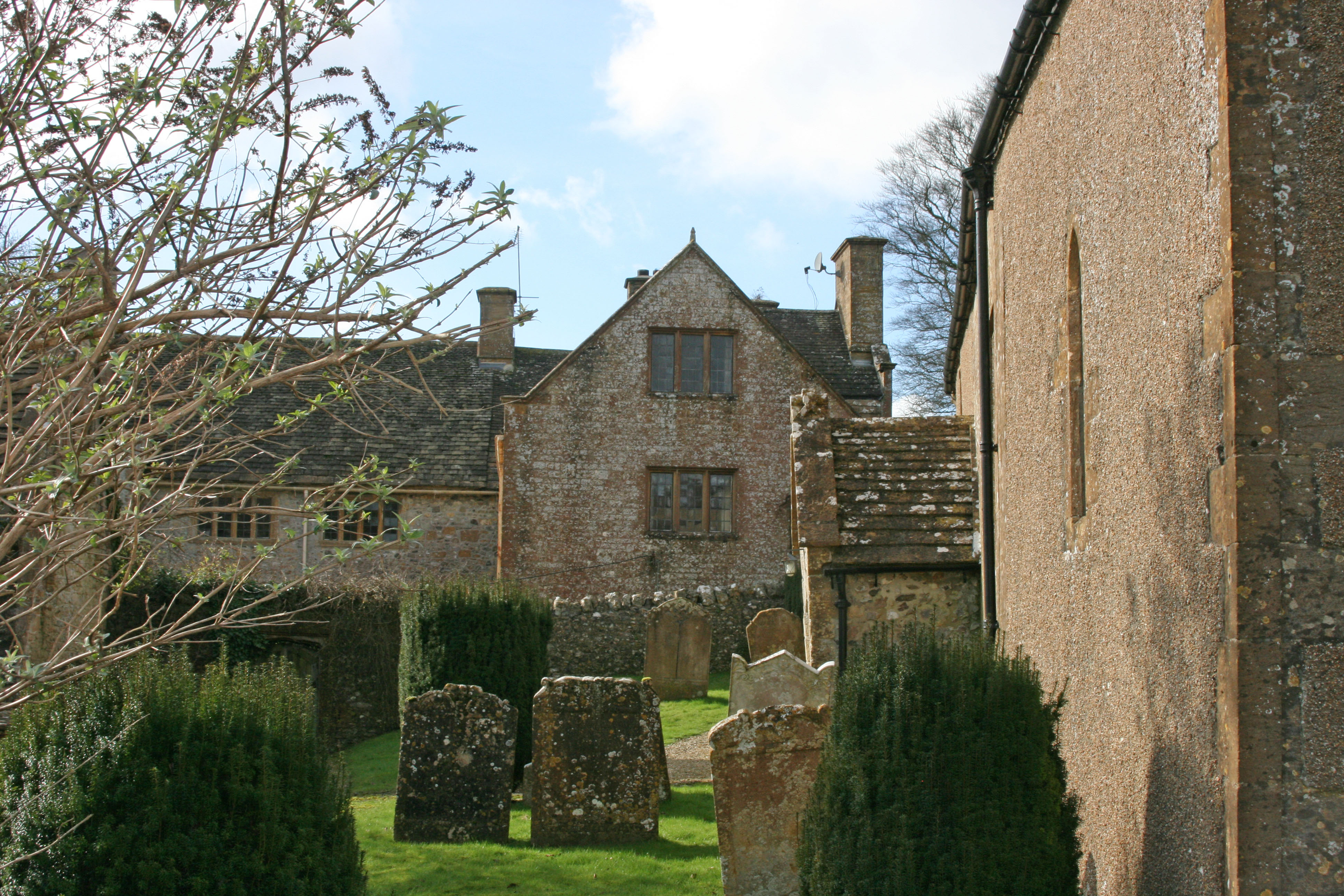 Wayford Manor and Chapel